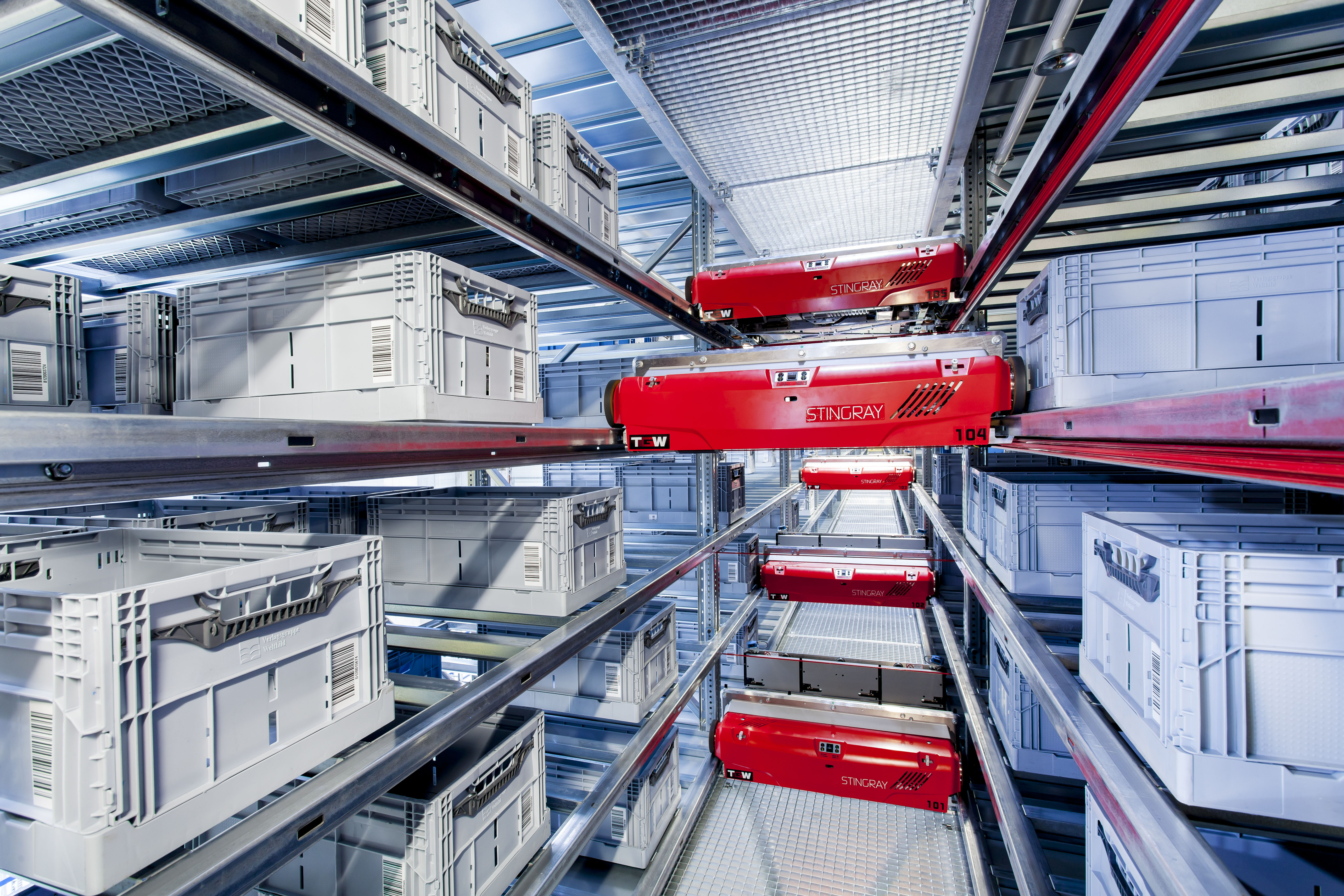 Automated storage and retrieval system using the highly dynamic TGW Stingray shuttle technology.